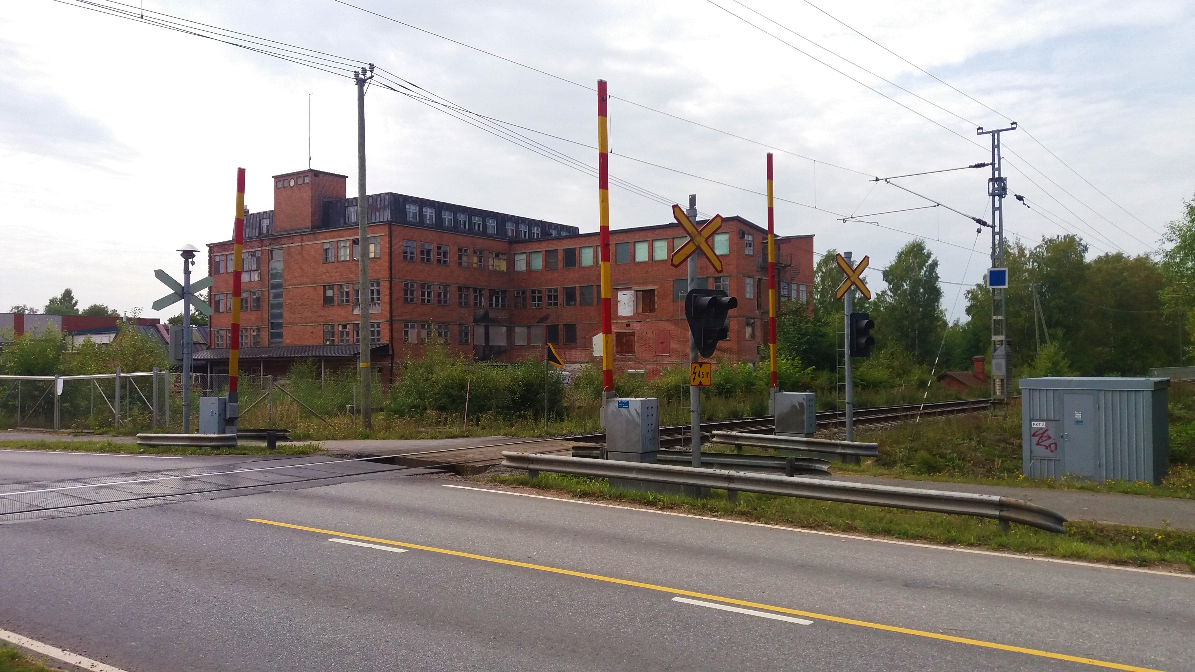 The former Satanahka leather factory, Kiukainen, Eura, Finland. A work by architect Heikki Tiitola.